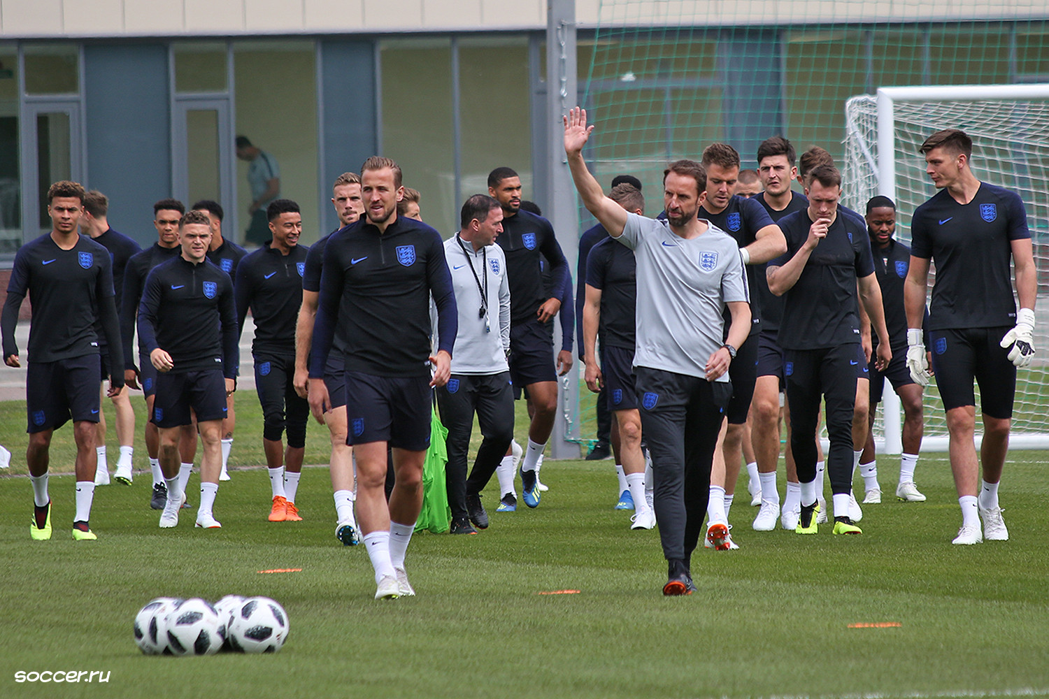 England national football team in Russia